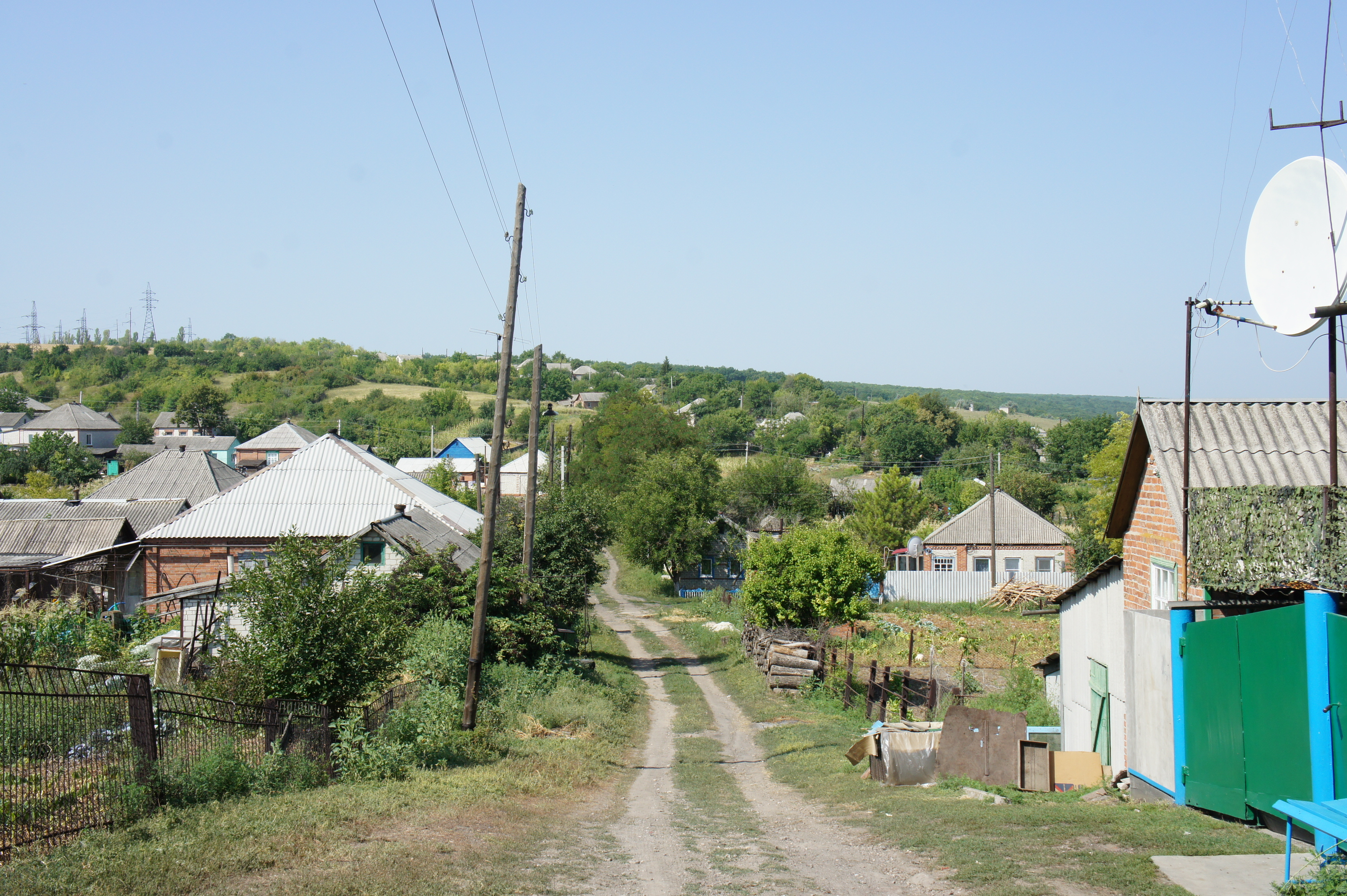 Mayaky Village, Donetsk, Ukraine